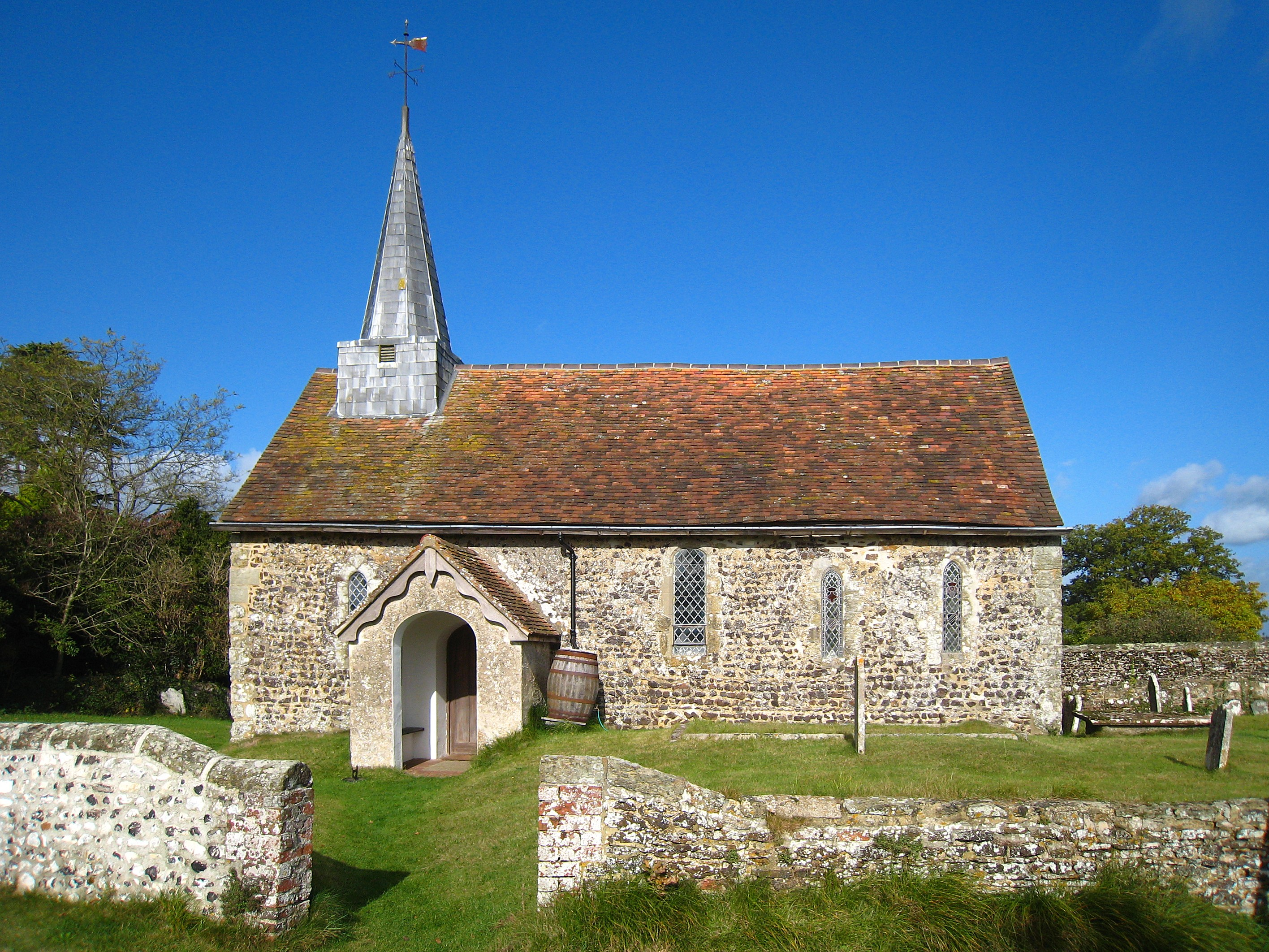 Greatham Church, West Sussex, England. Wikidata has entry Q5601478 with data related to this item.